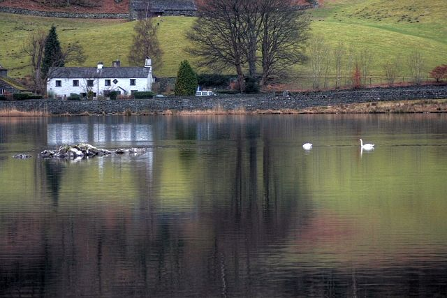 Nab Cottage Seen from across Rydal Water. The cottage dates from 1556 and has literary connections. It was once the home of Thomas de Quincey, a Romantic author of the Wordsworth era, and later of Hartley Coleridge, the son of Samuel Taylor Coleridge.